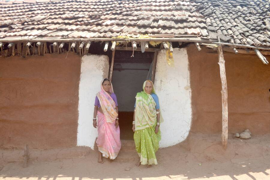 Residence of Tadvi Peoples